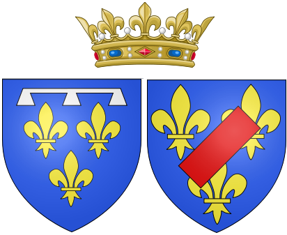 Arms of Françoise Marie de Bourbon, Légitimée de France as Duchess of Orléans